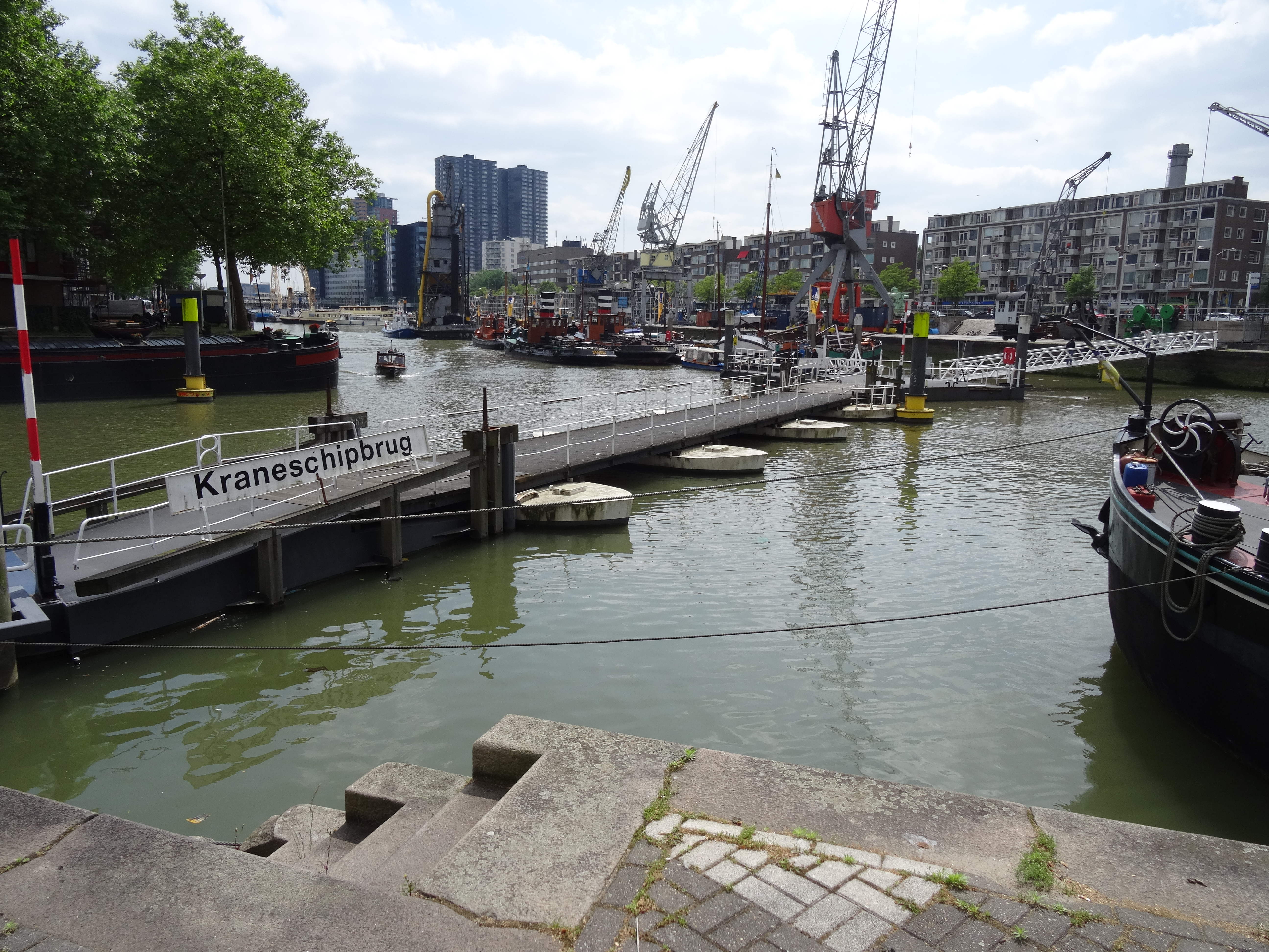 Kraneschipbrug - Stadsdriehoek - Rotterdam - Another view of the bridge from the northeast